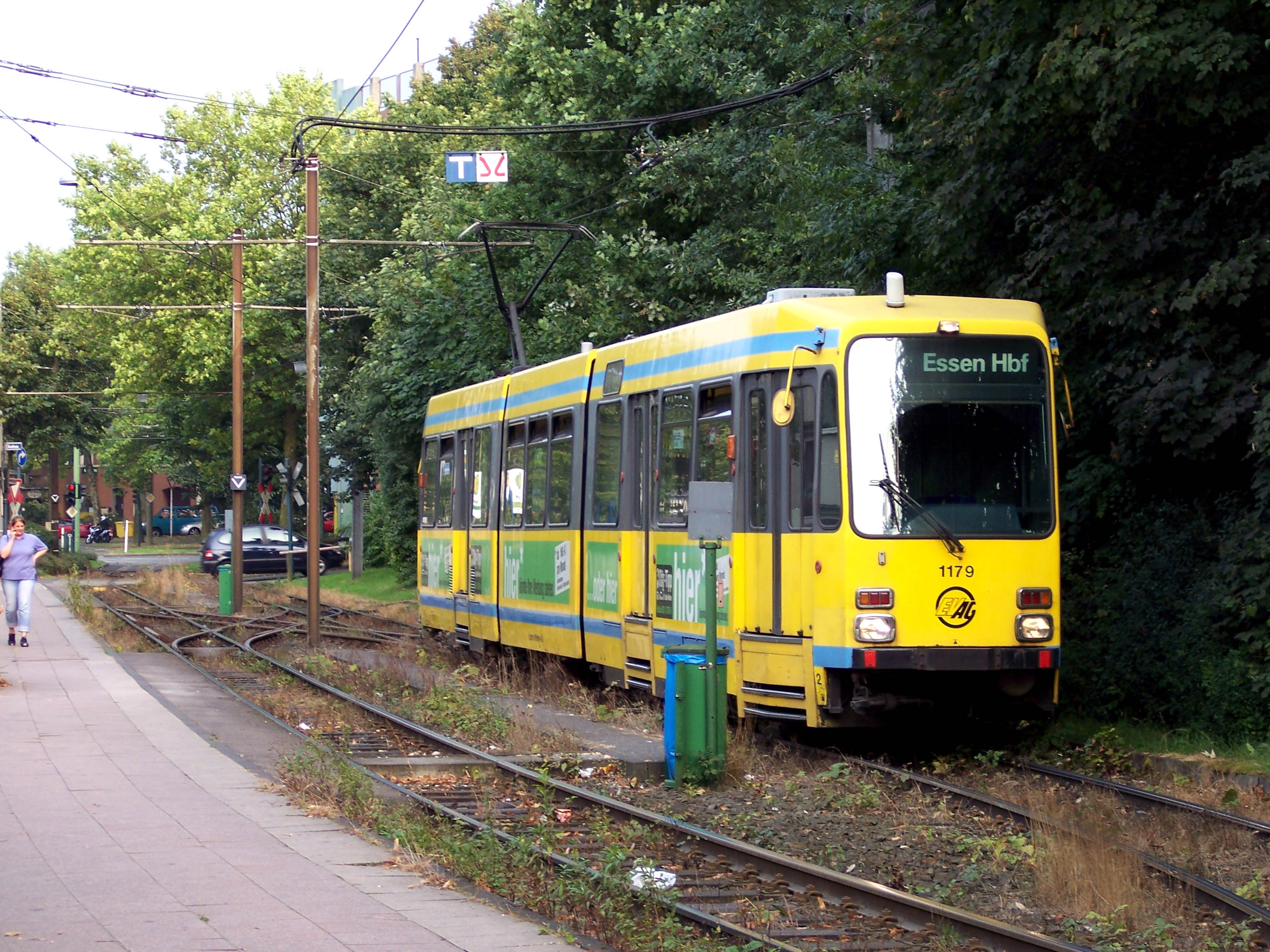 On the Essen, Germany system, a route 101 tram lays over at the Philippusstift terminus. The tram, a DUEWAG-built M8C, is fleetnumber 1179 and has been fitted with folding steps for loading at high platforms.